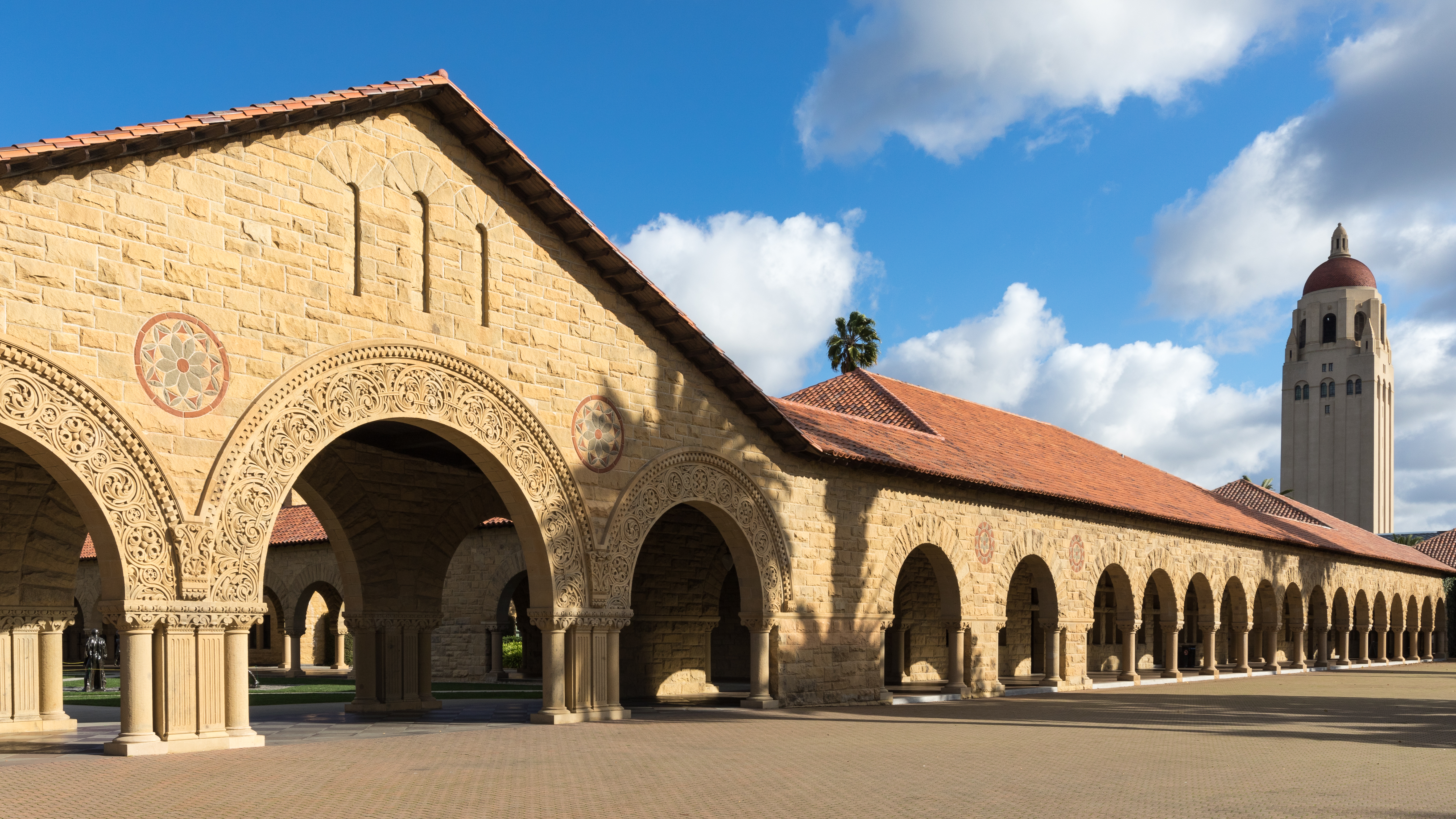 Stanford University campus in 2016. On the right the Hoover Tower; on the left the entrance to the Memorial Church.